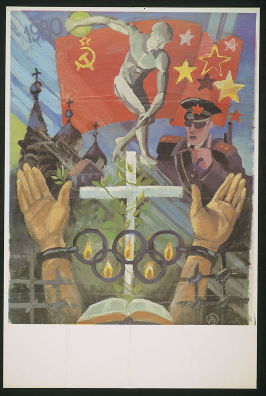 Date: 1980 Medium: Color poster Repository: American Jewish Historical Society Parent Collection: Bay Area Council for Soviet Jews (I-505) Link to Digital Object: Call number: aa-i505-178 The poster was originally found in the Records of Bay Area Council for Soviet Jews (I-505). See more information about this image and the collection by viewing the finding aid: Guide to the Records of Bay Area Council for Soviet Jews. Rights Information: No known copyright restrictions; may be subject to third party rights. For more copyright information, click here. To inquire about rights and permissions, or if you have a question regarding the collection to which the image belongs, please contact the Reference Department of the American Jewish Historical Society by email. Digital images created by the Gruss Lipper Digital Laboratory at the Center for Jewish History. Digitization of select American Soviet Jewry Movement material has been made possible through a generous grant from the National Historical Publications and Records Commission (NHPRC).